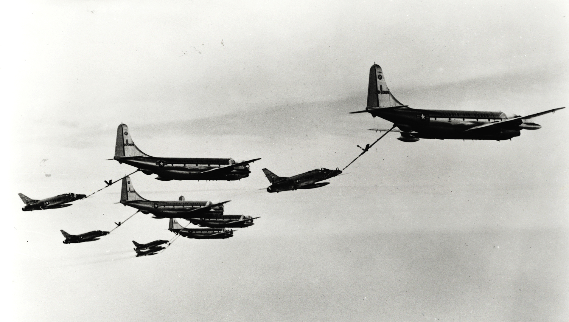 Five U.S. Air Force Boeing KC-97G Stratotankers of the 108th Air Refueling Squadron, 126th Air Refueling Wing, Illinois Air National Guard, based at the Chicago O'Hare International Airport, refuel five North American F-100C Super Sabres from the 121st Tactical Fighter Squadron, 113rd Fighter Group, of the District of Columbia Air Guard during operation "Ready Go", which was the first non-stop trans-Atlantic deployment of U.S. Air National Guard fighters to Europe, August 1964.